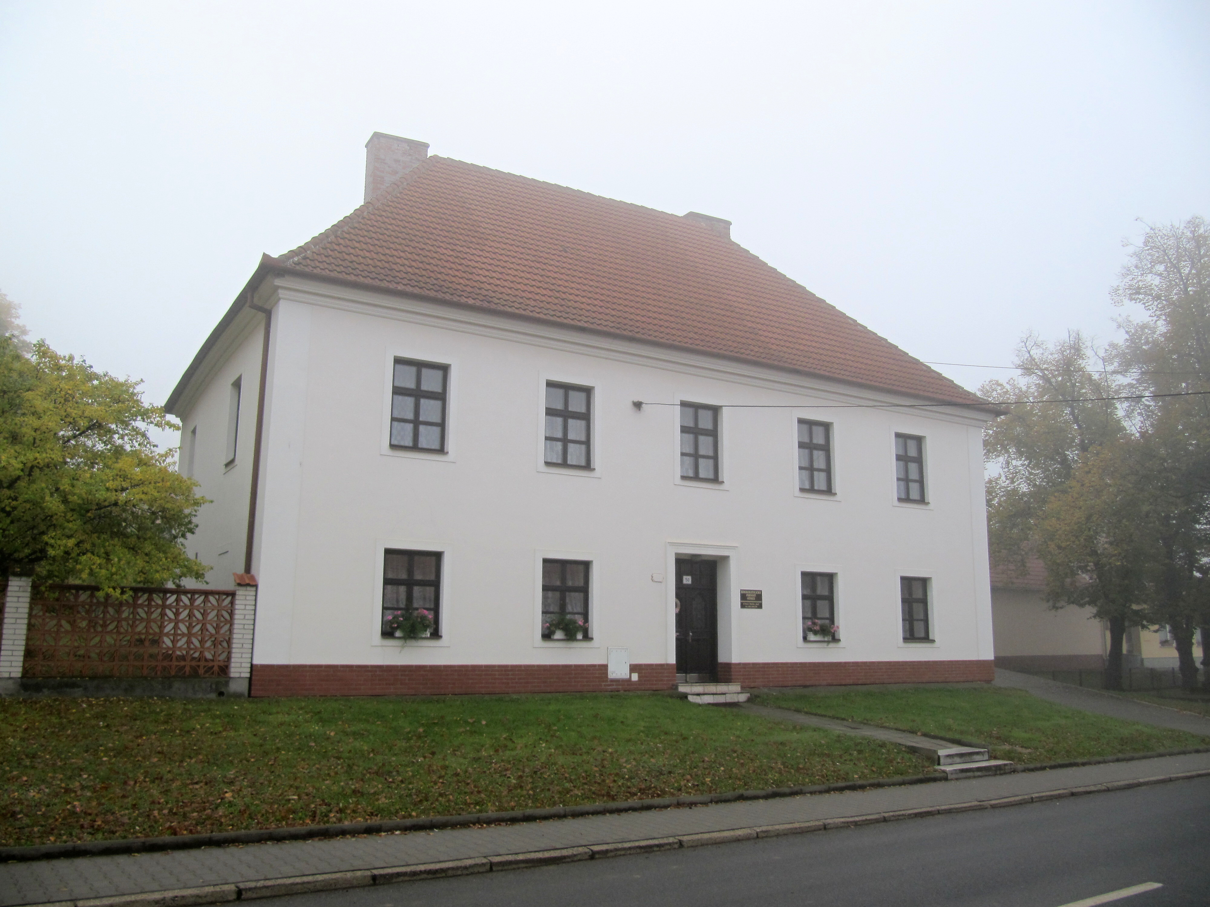 Otnice in Vyškov District, Czech Republic. Rectory.